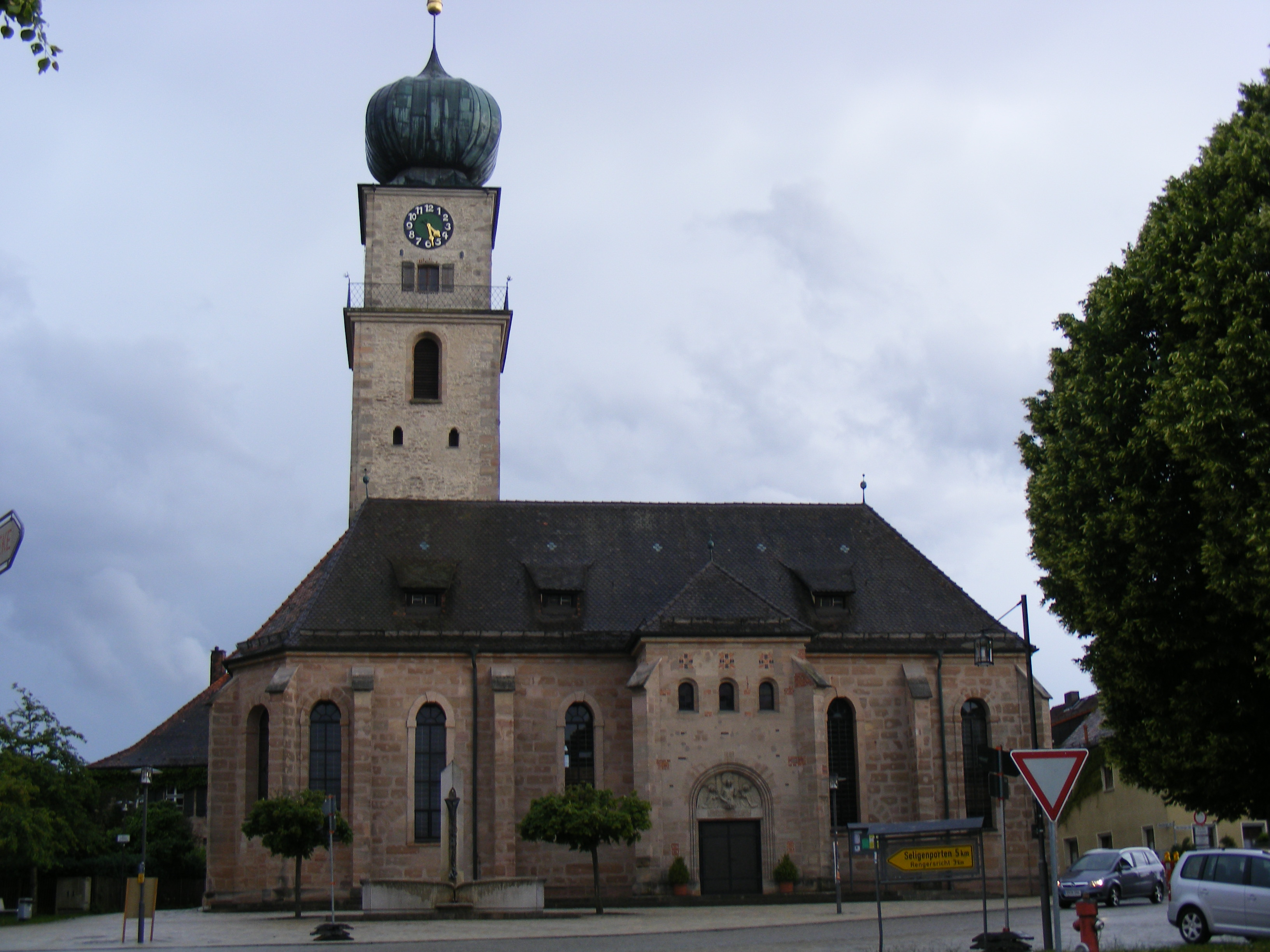 Church St. Georg in Pyrbaum (Germany/Bavaria)